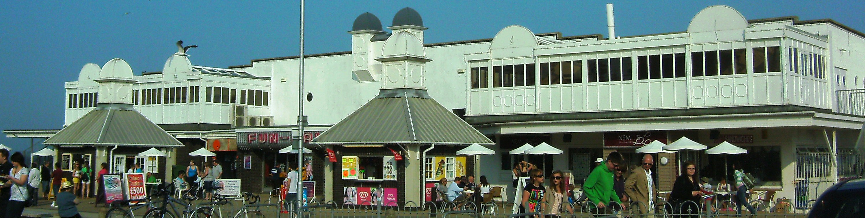 The Claremont Pier Fun Palace is a Family Entertainment Centre in Lowestoft